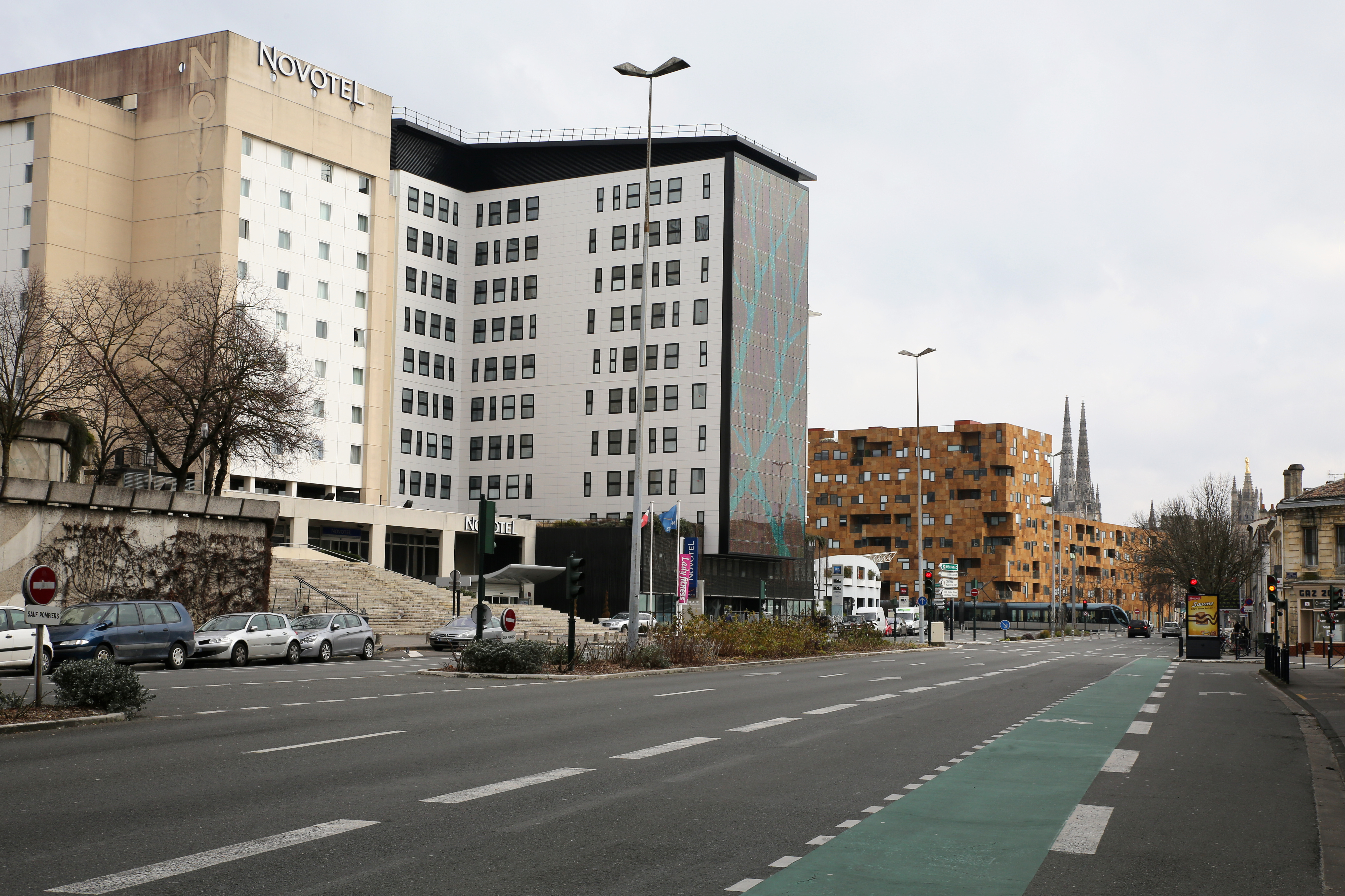 Buildings, rue d'Ornano, Bordeaux